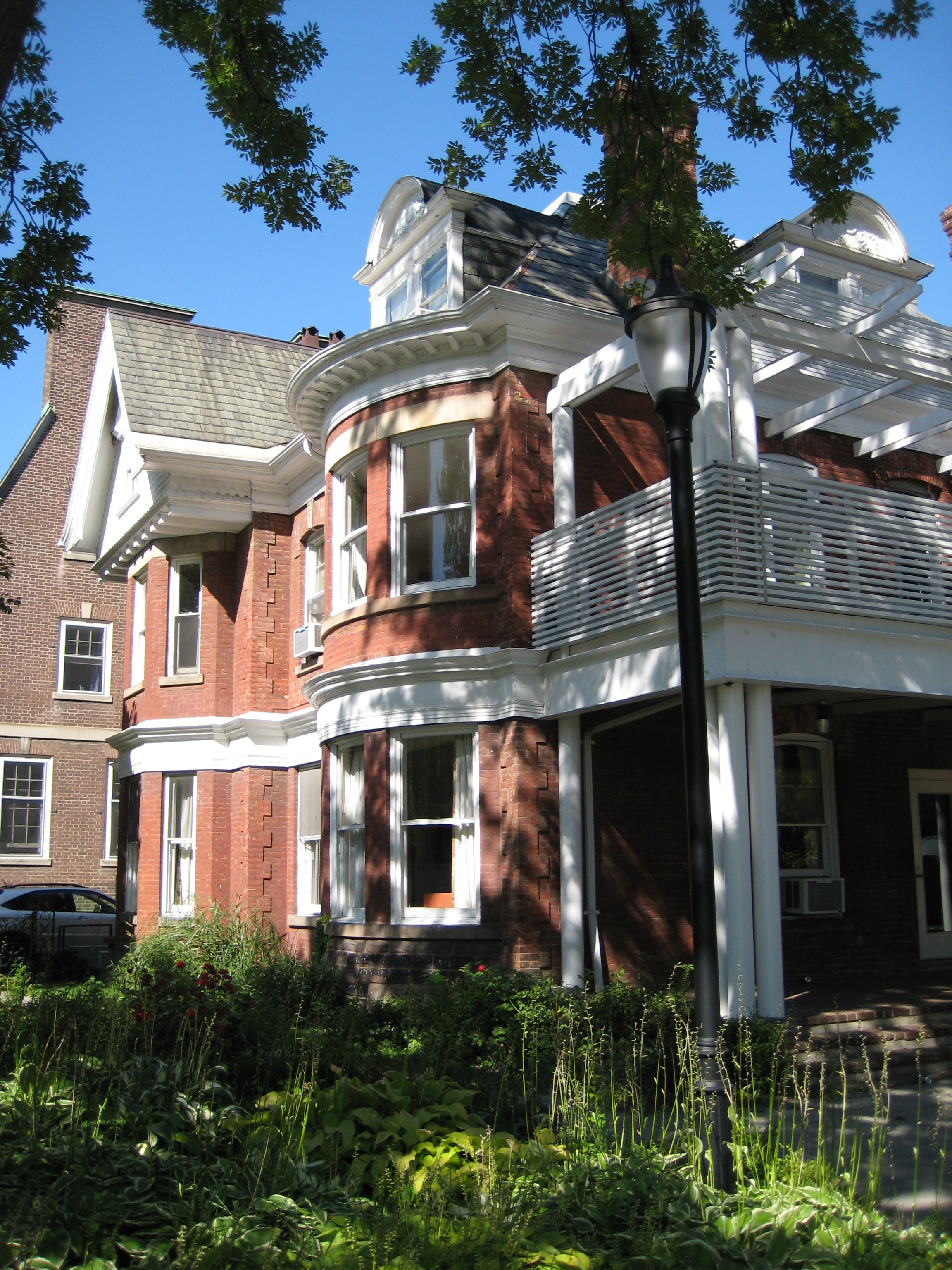 University College Union at the University of Toronto